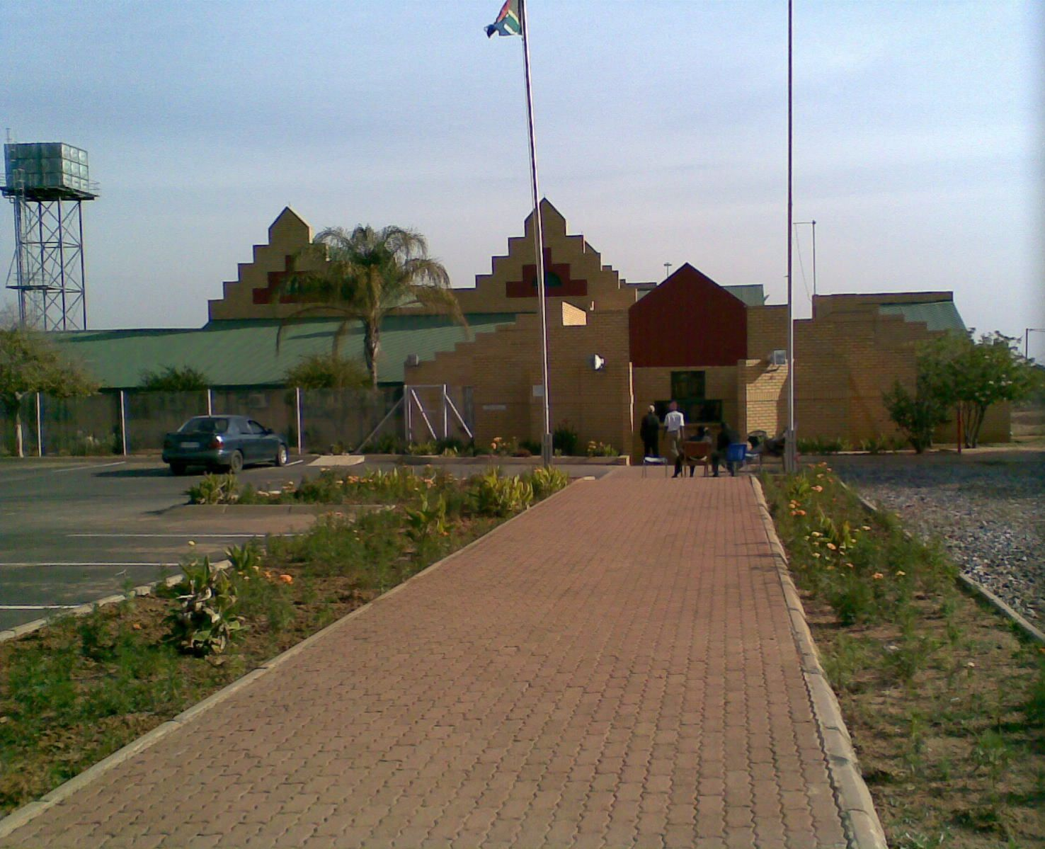 Author: Samuel Molepo Source: Self Captured